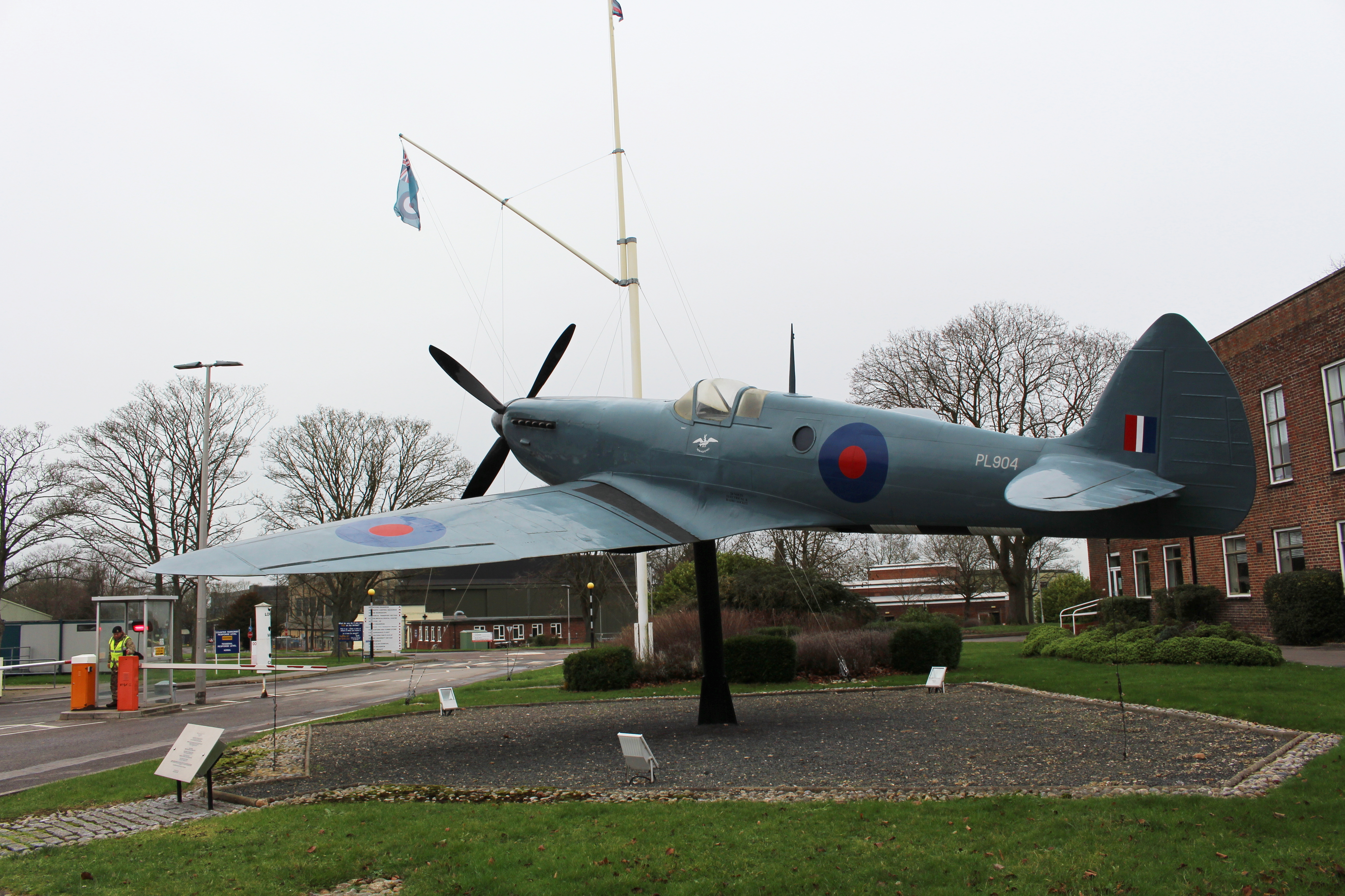 Main entrance to RAF Benson with replica Spitfire.